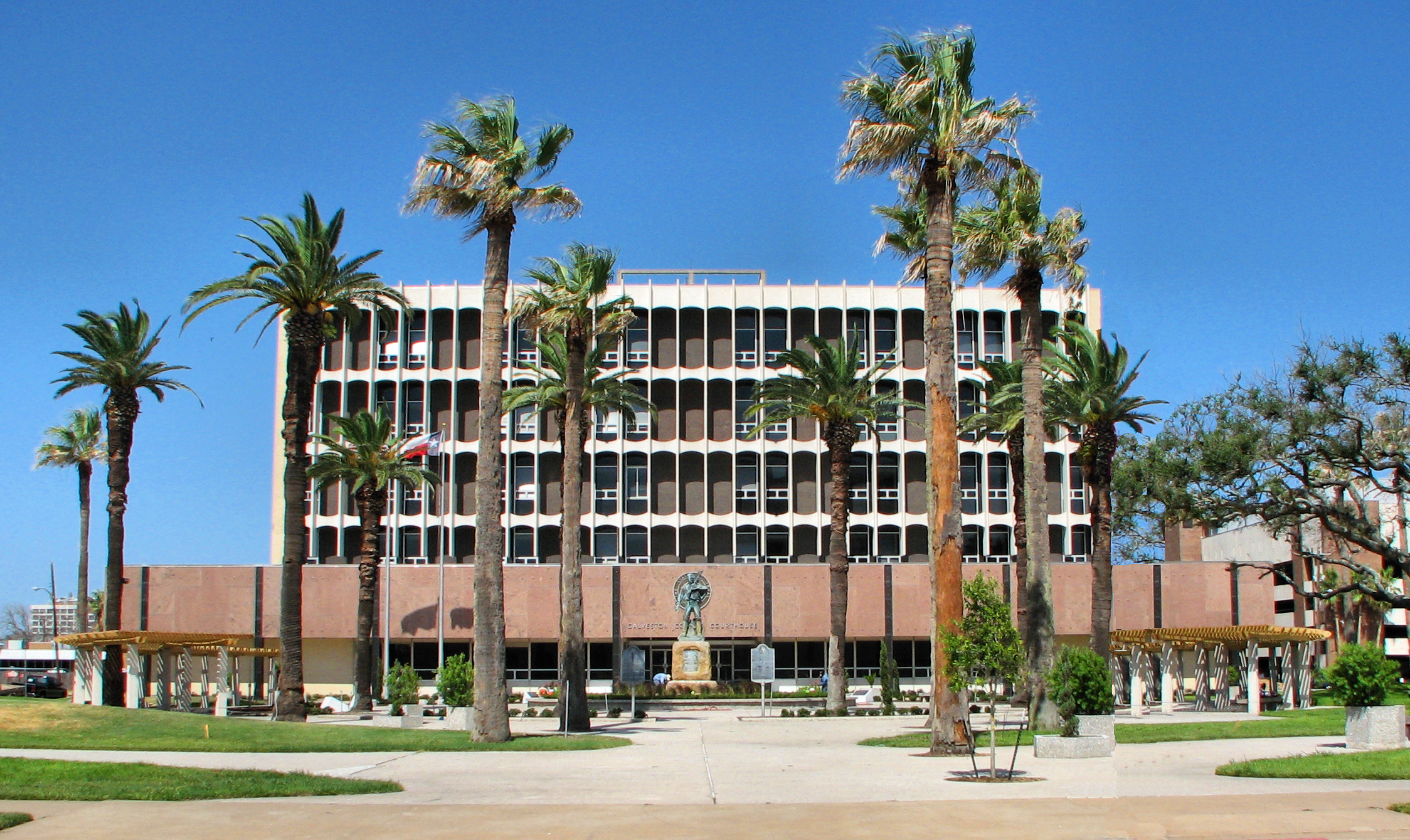 1961 Galveston County Civil Courthouse.